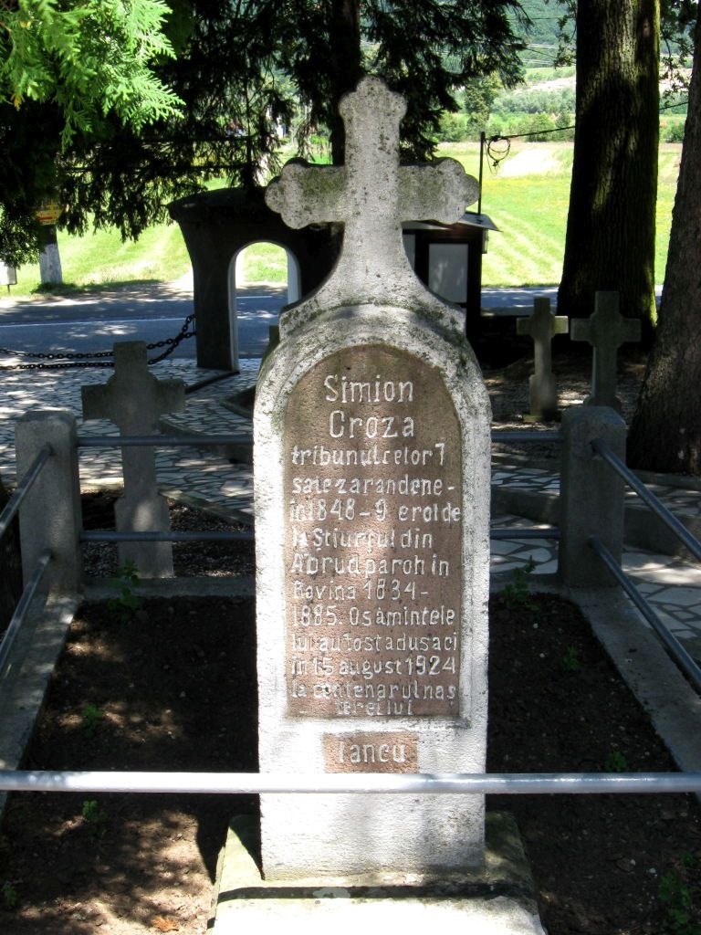 Tomb of Simion Groza, Țebea, Hunedoara